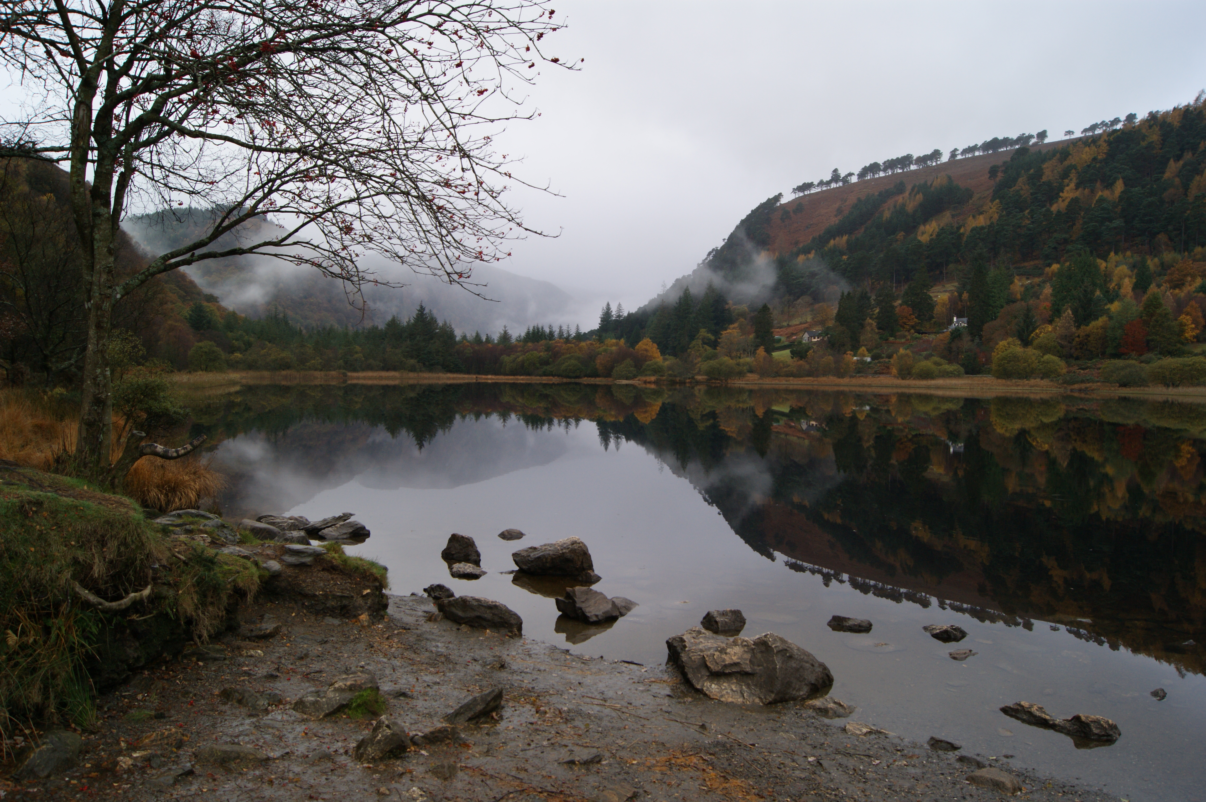 Wicklow Mountains, Glendalough: Upper Lake